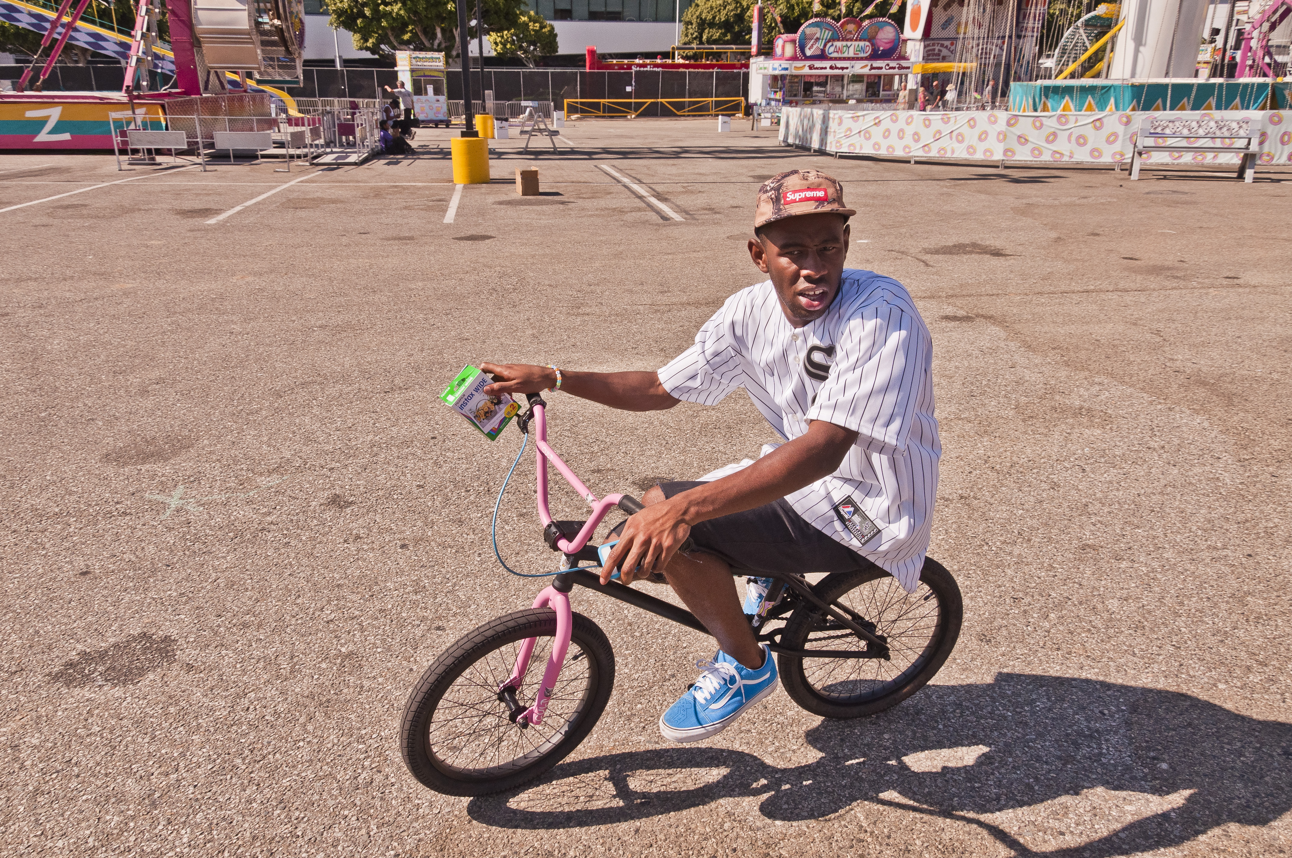 Tyler, The Creator